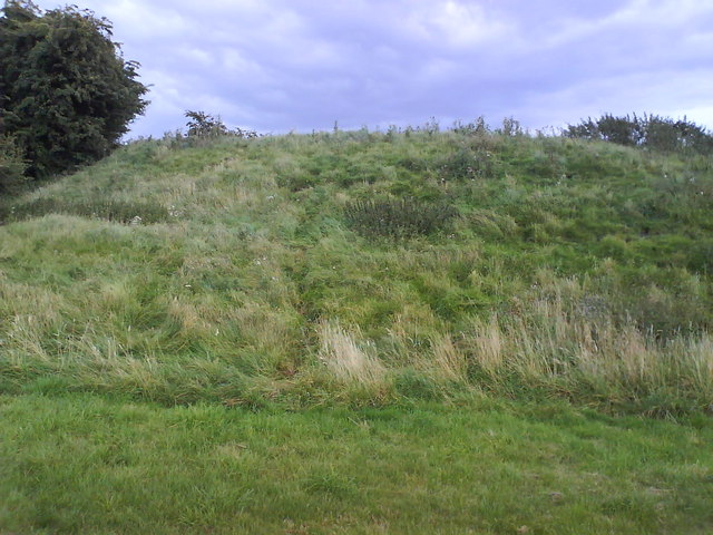 Castle Mound. Situated around the back of the village, on the end of a low ridge is a quadrangular moated platform, 55m across and 4-5m tall. It is the site of a castle or fortified manor house that was built in 1314 by Henry le Scope. It had been abandoned by 1630, and there is no evidence left aside from the mound surrounded by a ring of trees, except here on the west side where the outer ringwork has been destroyed by ploughing.